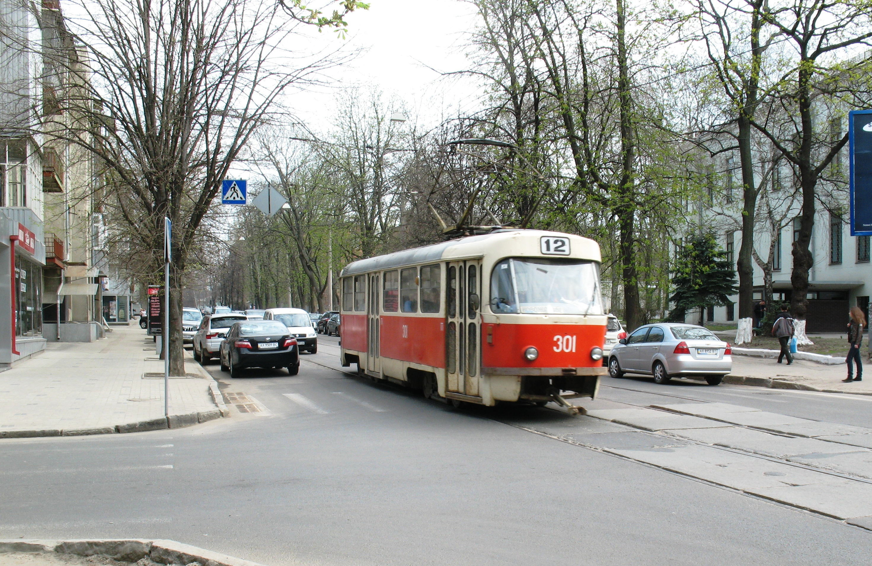 Kharkov City. Tram 1970s #12 Tatra T3.